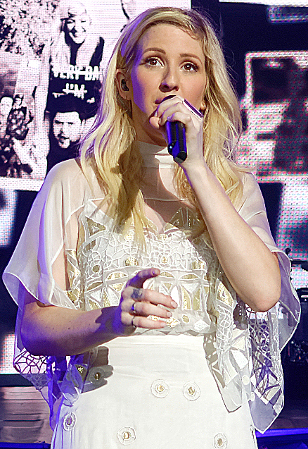 Ellie Goulding performing live at Staples Center in downtown Los Angeles California on Friday April 8th, 2016 with her Delirium World Tour.